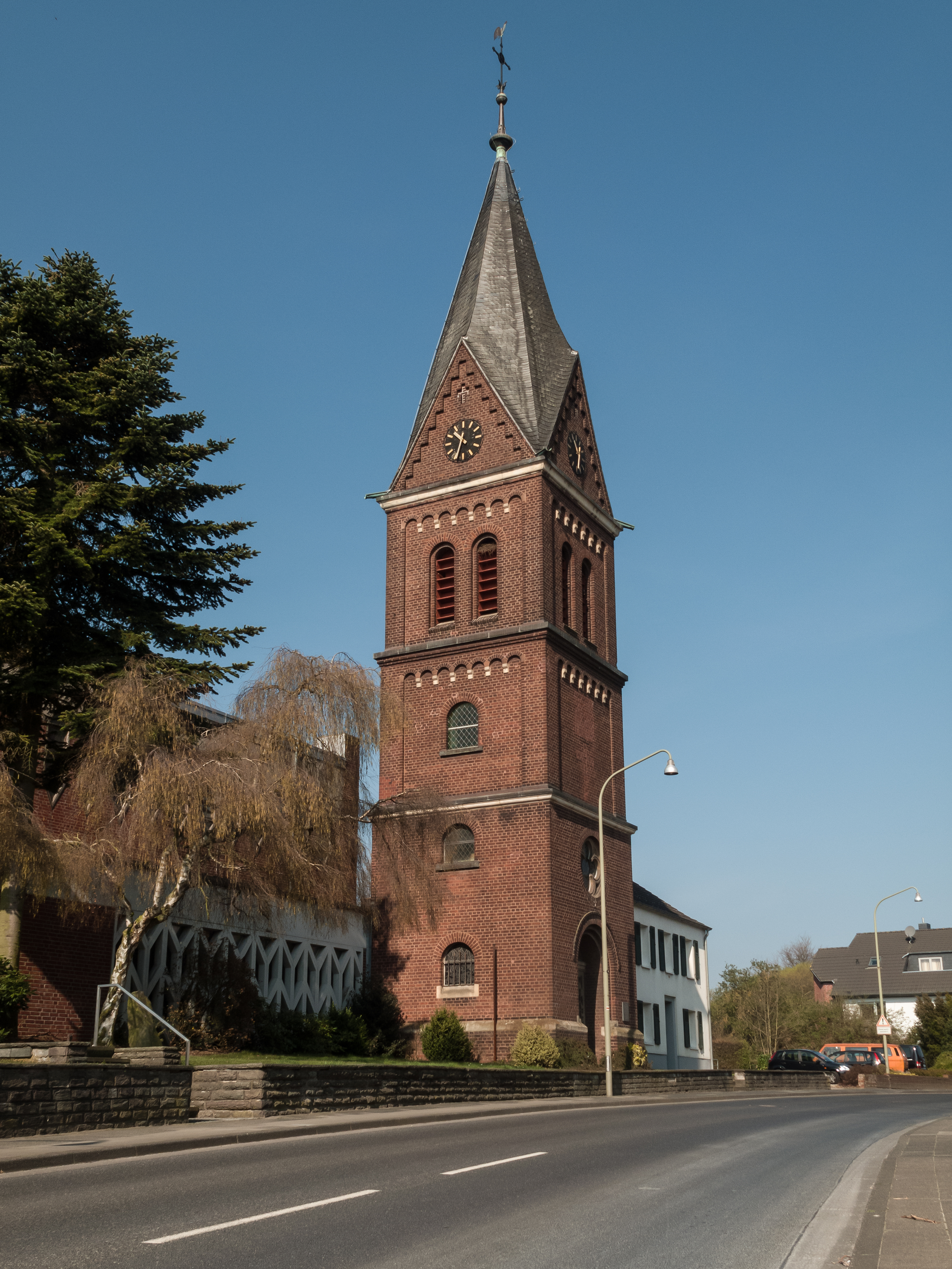 Wildenrath, church This is a photograph of an architectural monument.